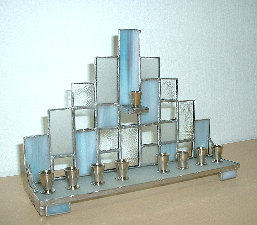 Stained glass Hanukkah menorah, made and photographed by my daughter, who granted permission